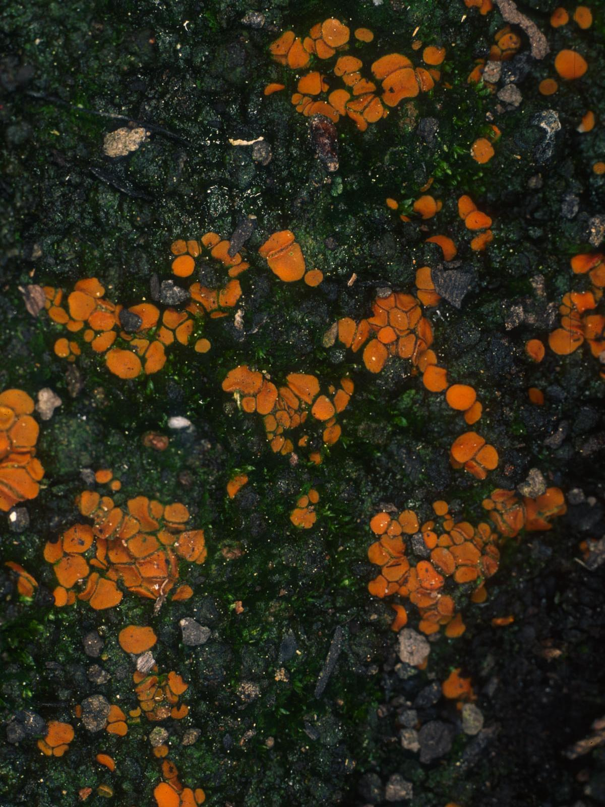 Fruit bodies of the ascomycetous fungus Pyronema domesticum (Sowerby) Sacc. Specimens photographed in Sierra Valley east of Loyalton, California, USA.